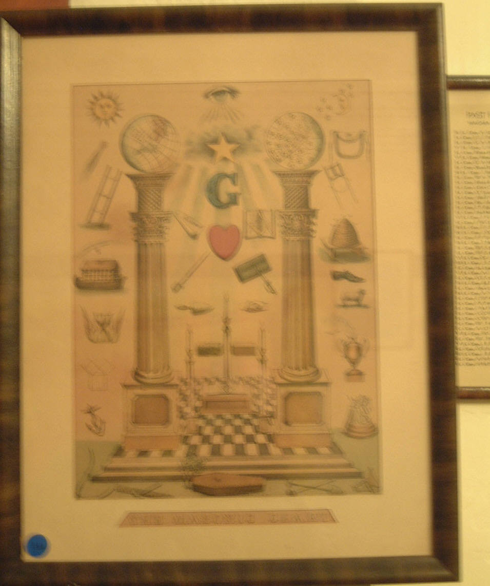 Graphic in Niagara Lodge 2 of the Freemasons Building in Niagara-on-the-Lake, Ontario, Canada.